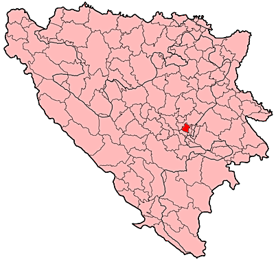 Location of Vogošća municipality in Bosnia and Herzegovina.